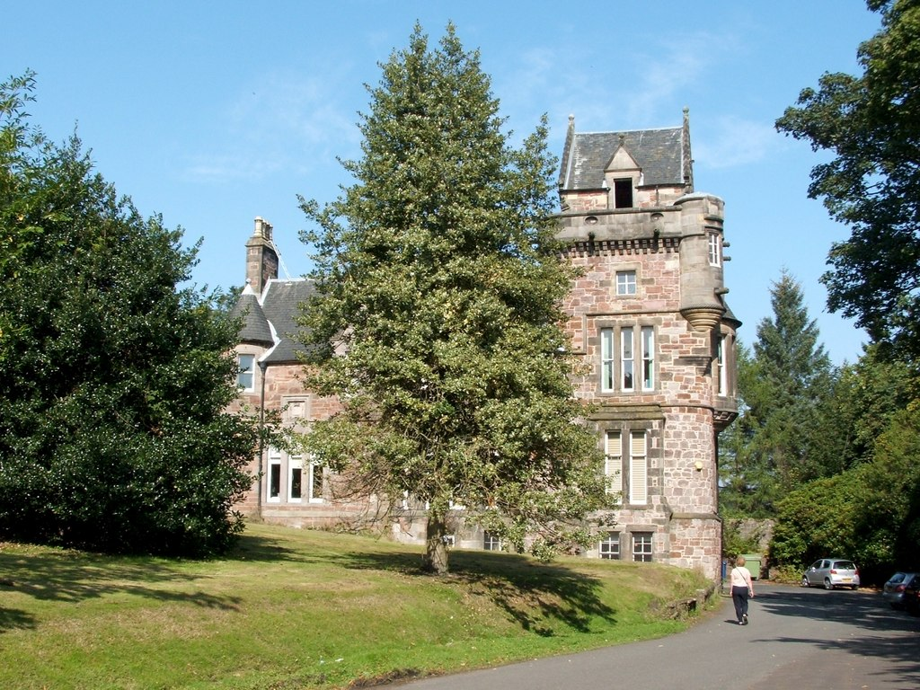 Levenford House